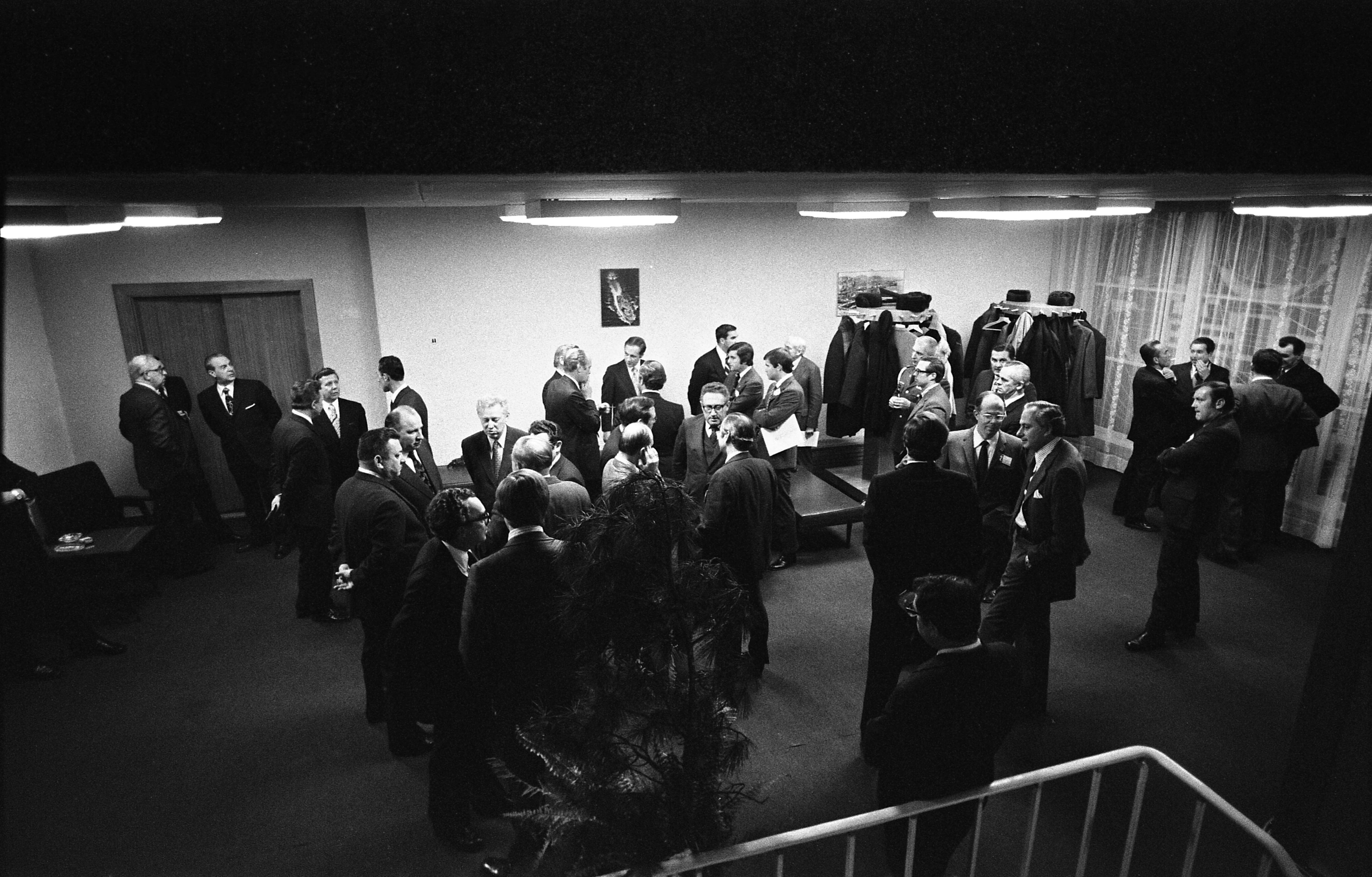 Photograph of the American and Soviet Delegations taking a break for refreshments during a long nighttime meeting at the Vladivostok Summit on Arms Control.